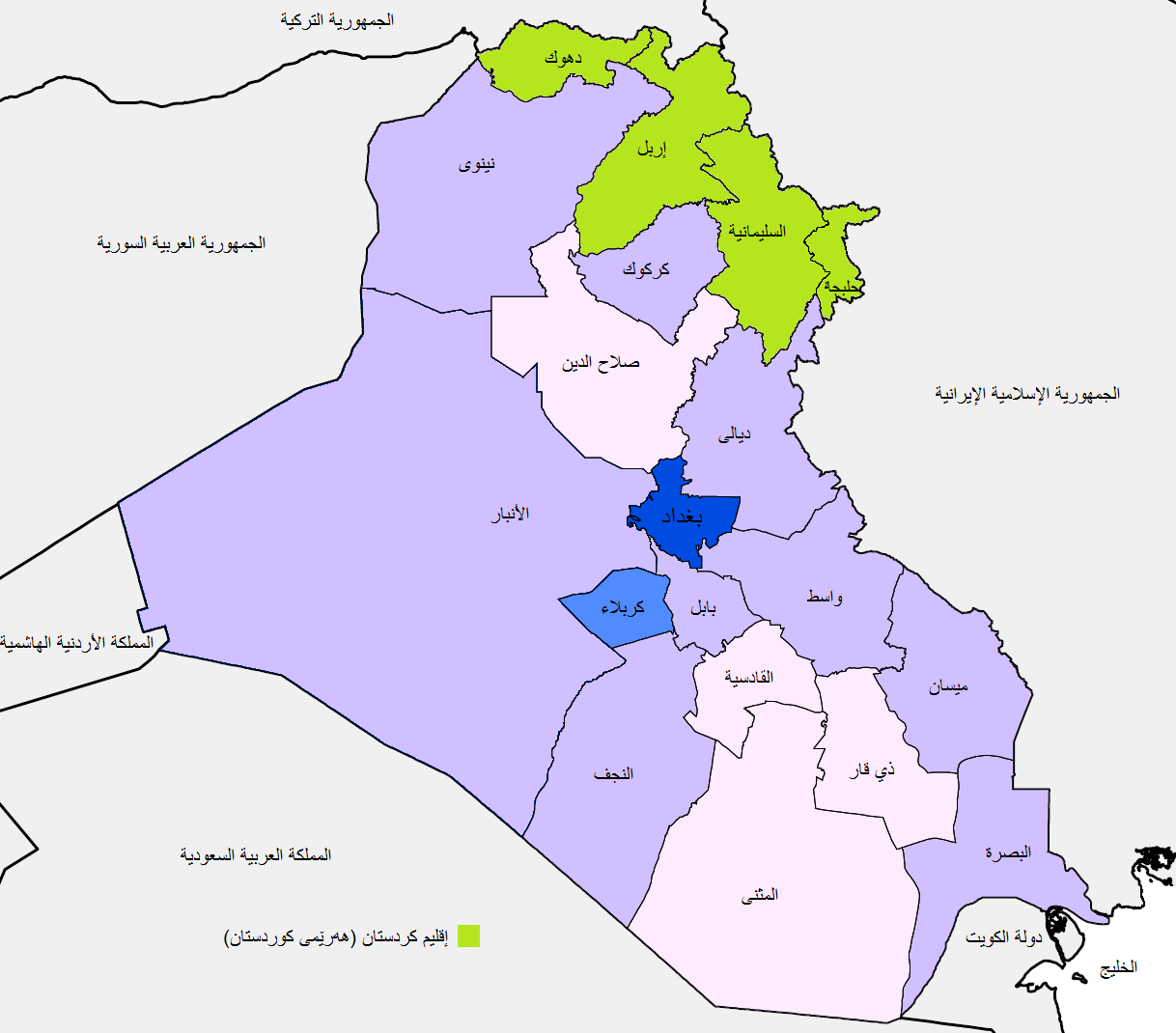 Iraq political map 2015